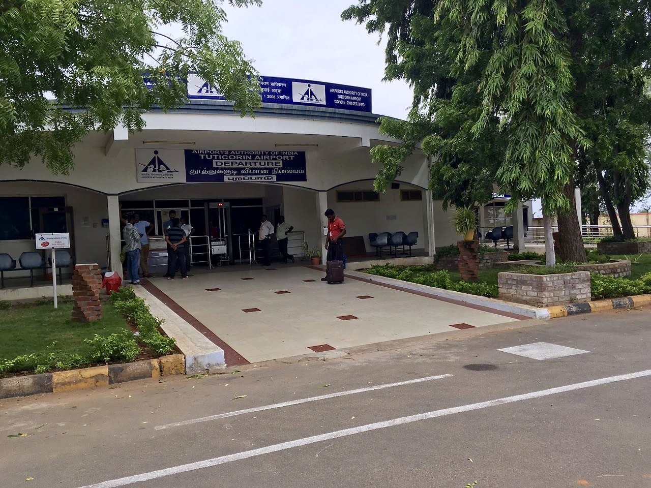 Entrance to Departures section at Tuticorin Airport, India